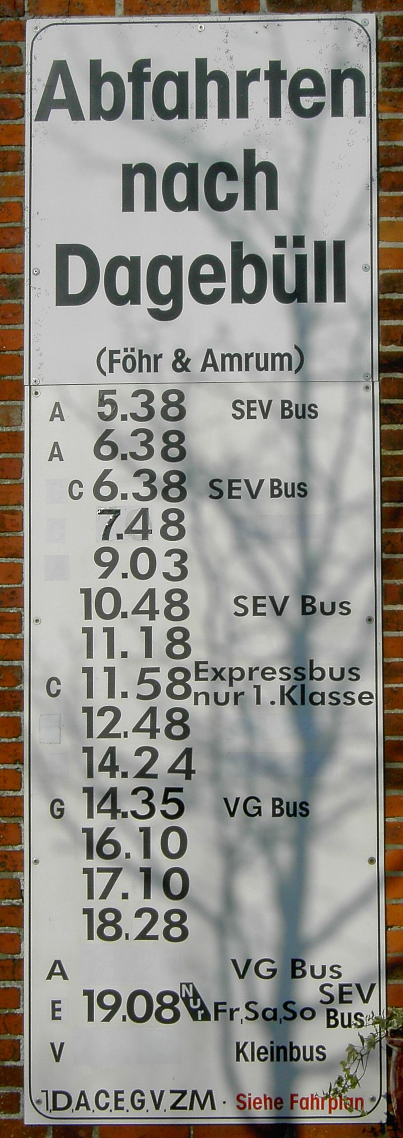 Shows schedule of the Kleinbahn Niebüll-Dagebüll at Niebüll (neg) station, Germany. Shot by Mghamburg at 29th October 2005.